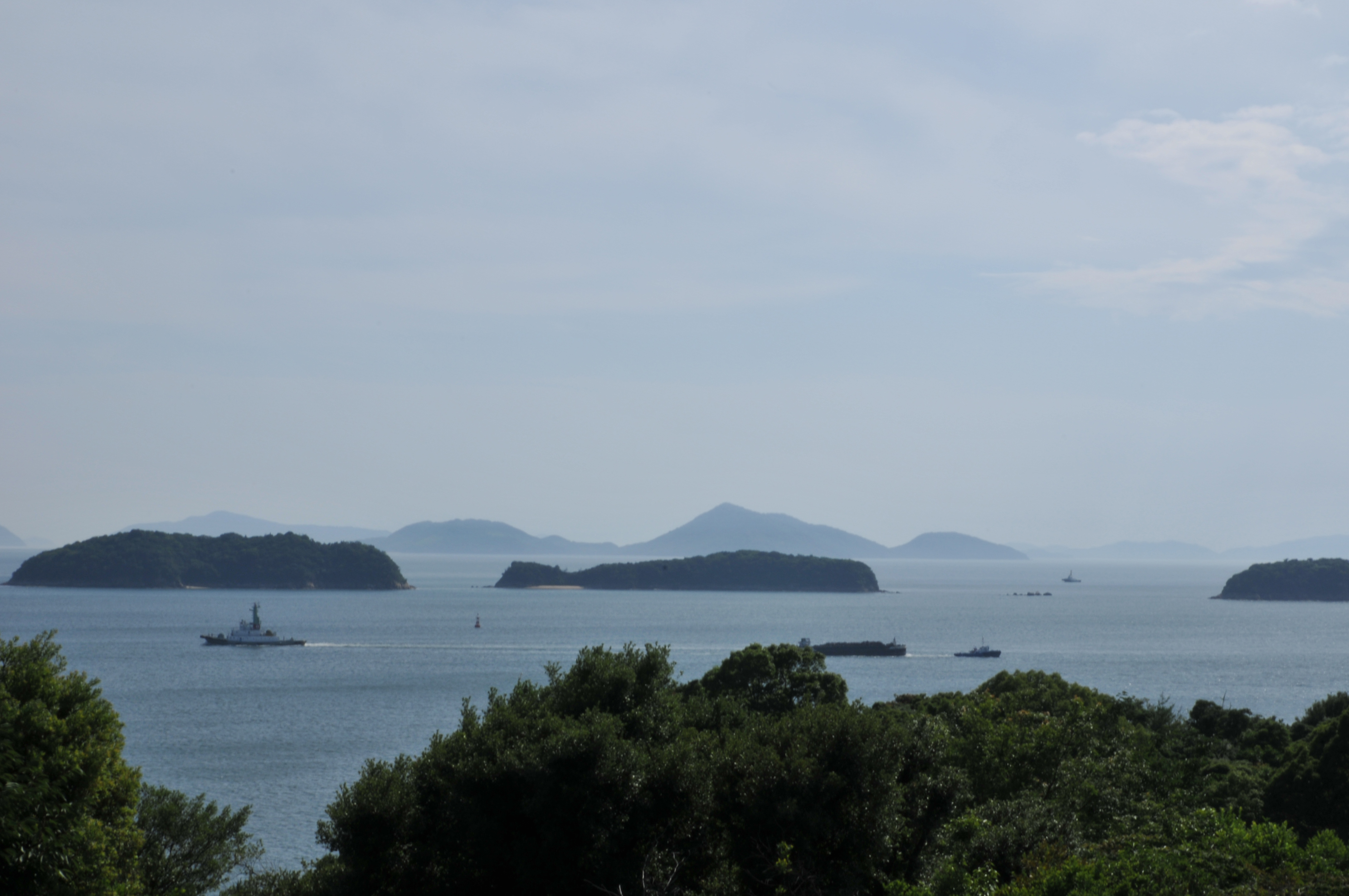 Seto Inland Sea view from Honjō Hachimangū